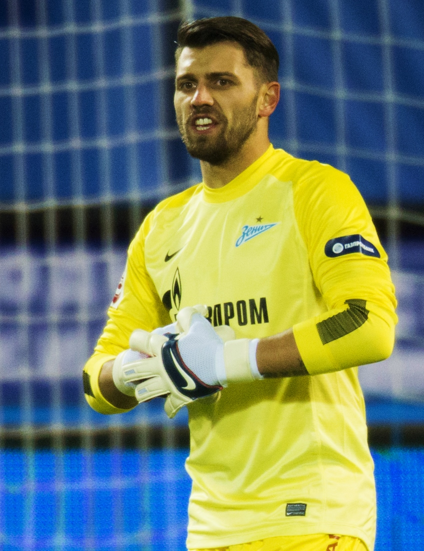 Juri Lodigin